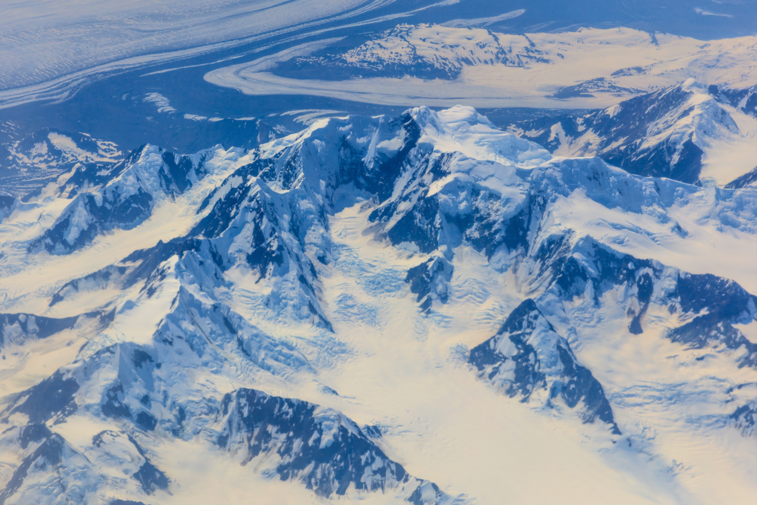 Aerial view of Mount Steller on flight from Vancouver to Beijing..crossing Aalska's Chugach Mountains through Wrangell-St Elias National Park...views of the Bering Glacier area...